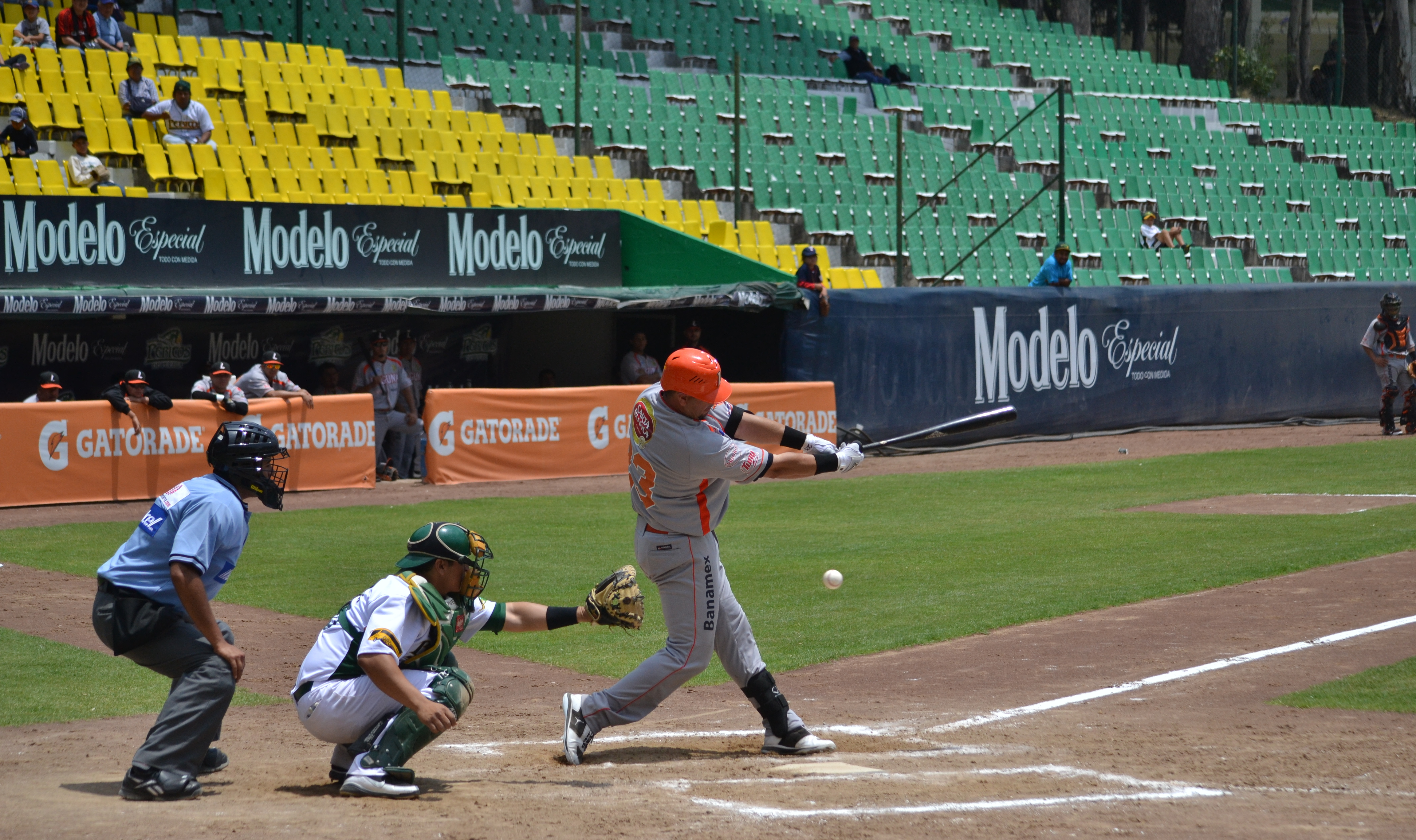 A baseball player scrapes the ball in a game against the Pericos de Puebla (i.e. "The Puebla Parrots") at Estadio de Béisbol Hermanos Serdán (i.e. "Brothers Serdán Baseball Stadium") in Puebla, Mexico.